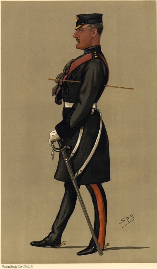 Caricature of Eaton, Herbert Francis (Major General Lord Cheylesmore). Caption reads Brown.